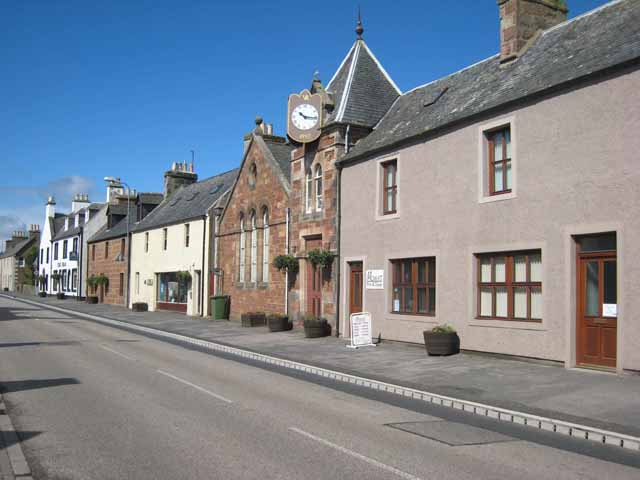 Main Street, Golspie, near to Golspie, Highland, Great Britain. The imposing building on Golspie's Main Street (A9) with the clocktower started life as the YMCA building, 1901.